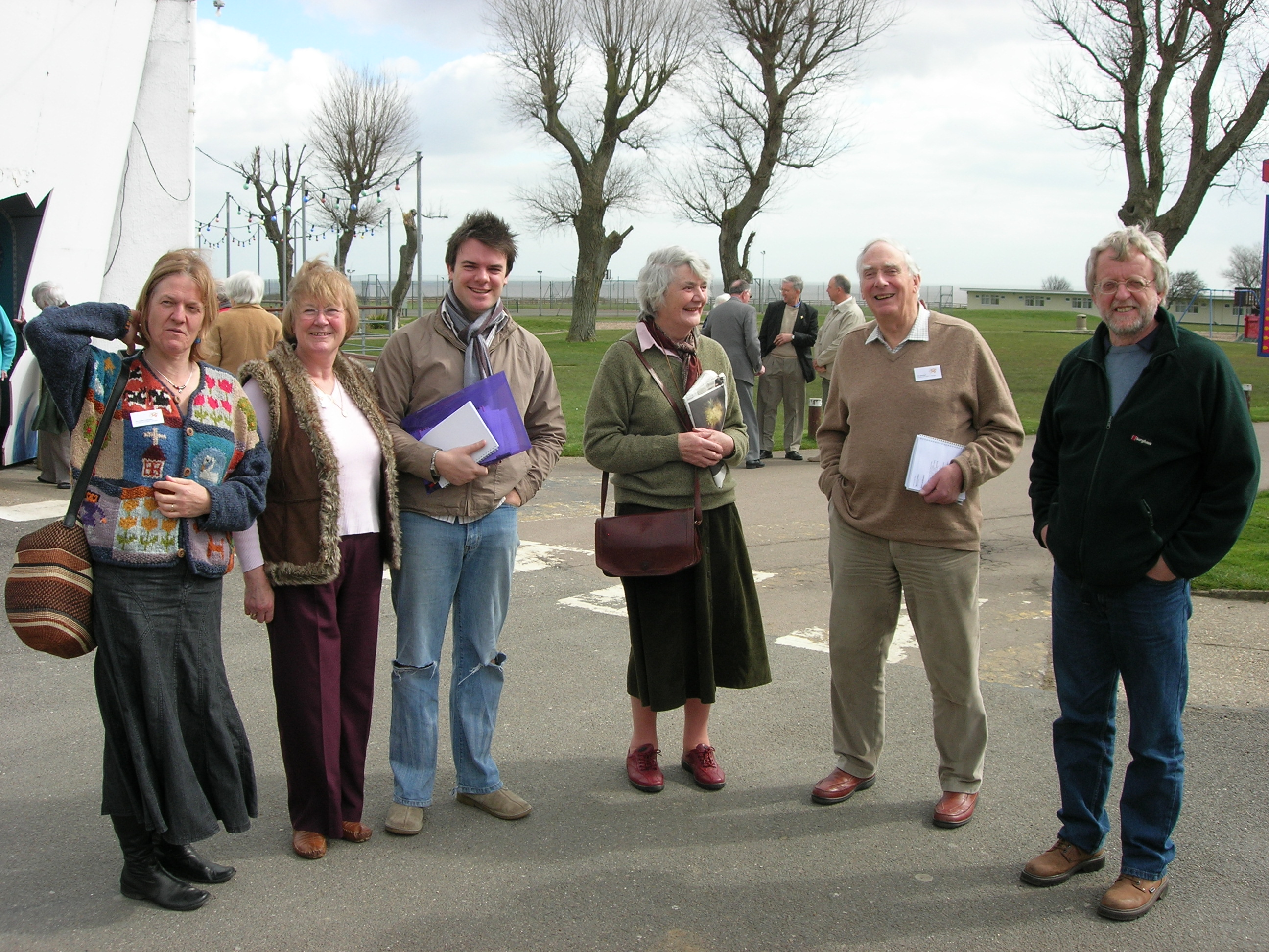 A group of participants at the final Caister retreat conference (at Pakefield, north Suffolk) in 2008.